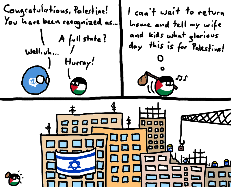 Polandball comic on the news that Israel authorises the buildings of new settlements in Jerusalem and the West Bank; a matter of days after Palestine was granted non-member observer status at the United Nations. (news link)